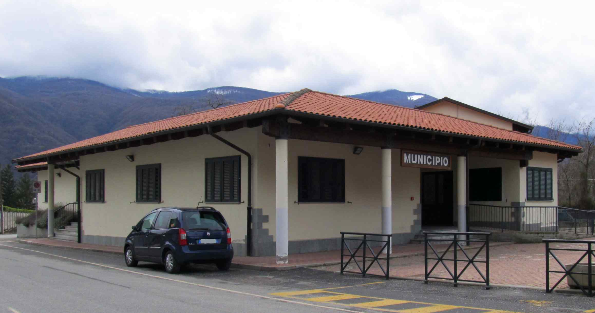 Caprie (TO, Italy): town hall